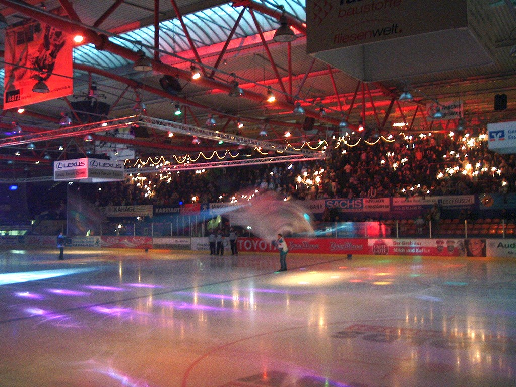 Eissporthalle Essen-West or Eissporthalle am Westbahnhof, home of the ESC Moskitos Essen